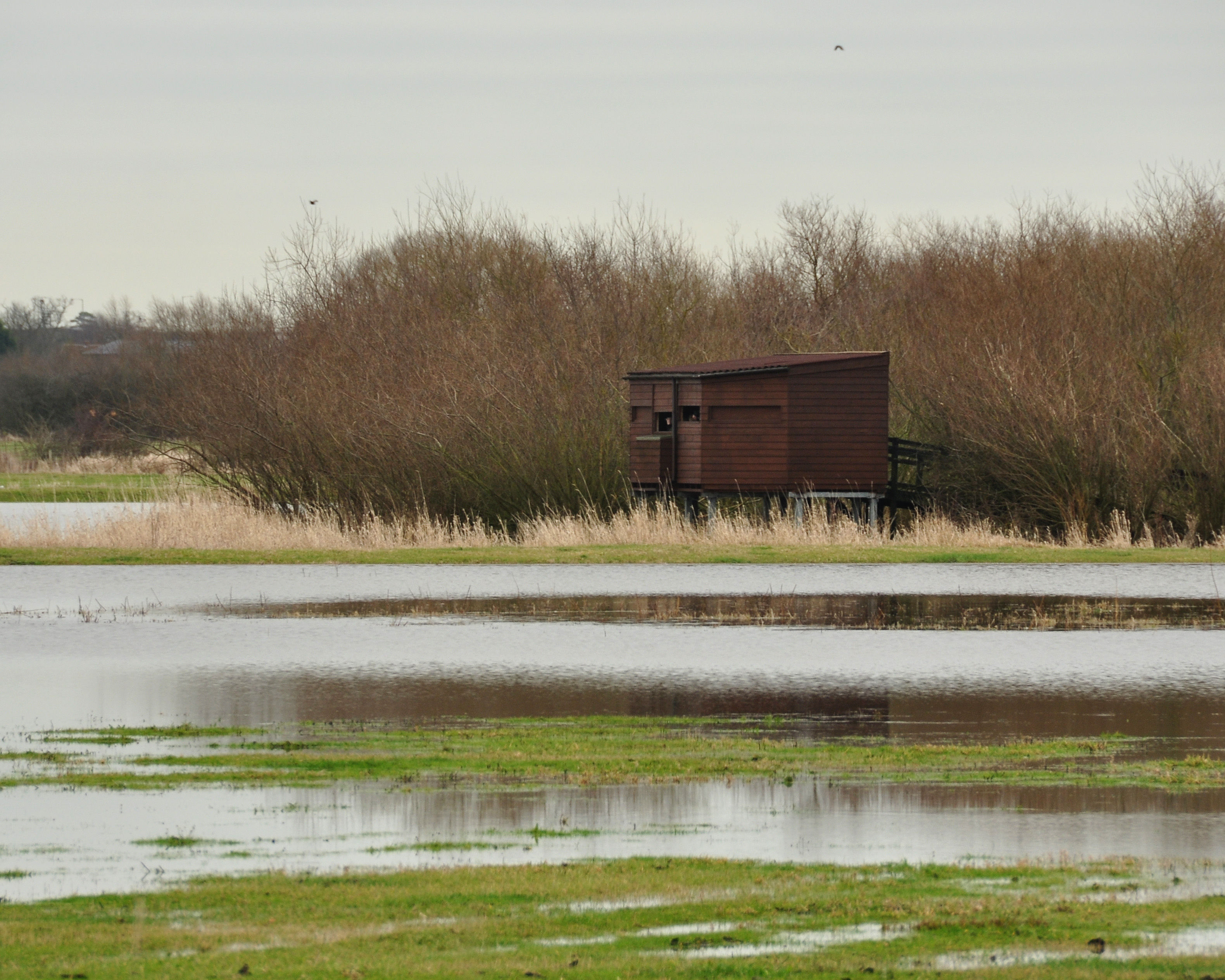 A bird hide in the Coombe Hill Canal and Meadows nature reserve, near Tewkesbury in Gloucestershire.